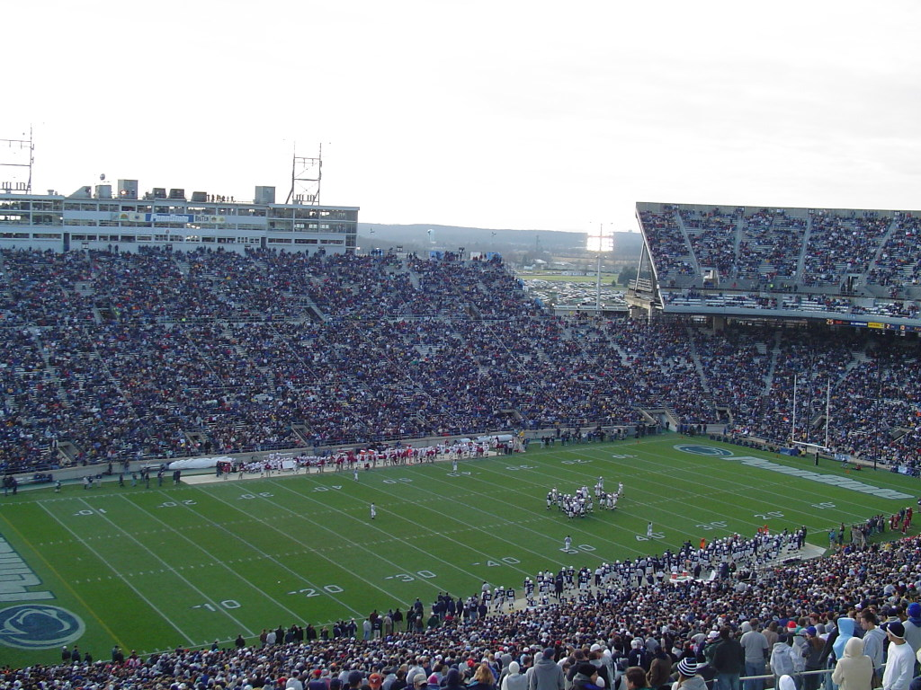 author-Sav127 photo taken 11/16/2003 at Beaver Stadium, University Park, PA. Indiana at Penn State. 15:04, 9 June 2006 . . Sav127 . . 1024×768 (263,848 bytes)